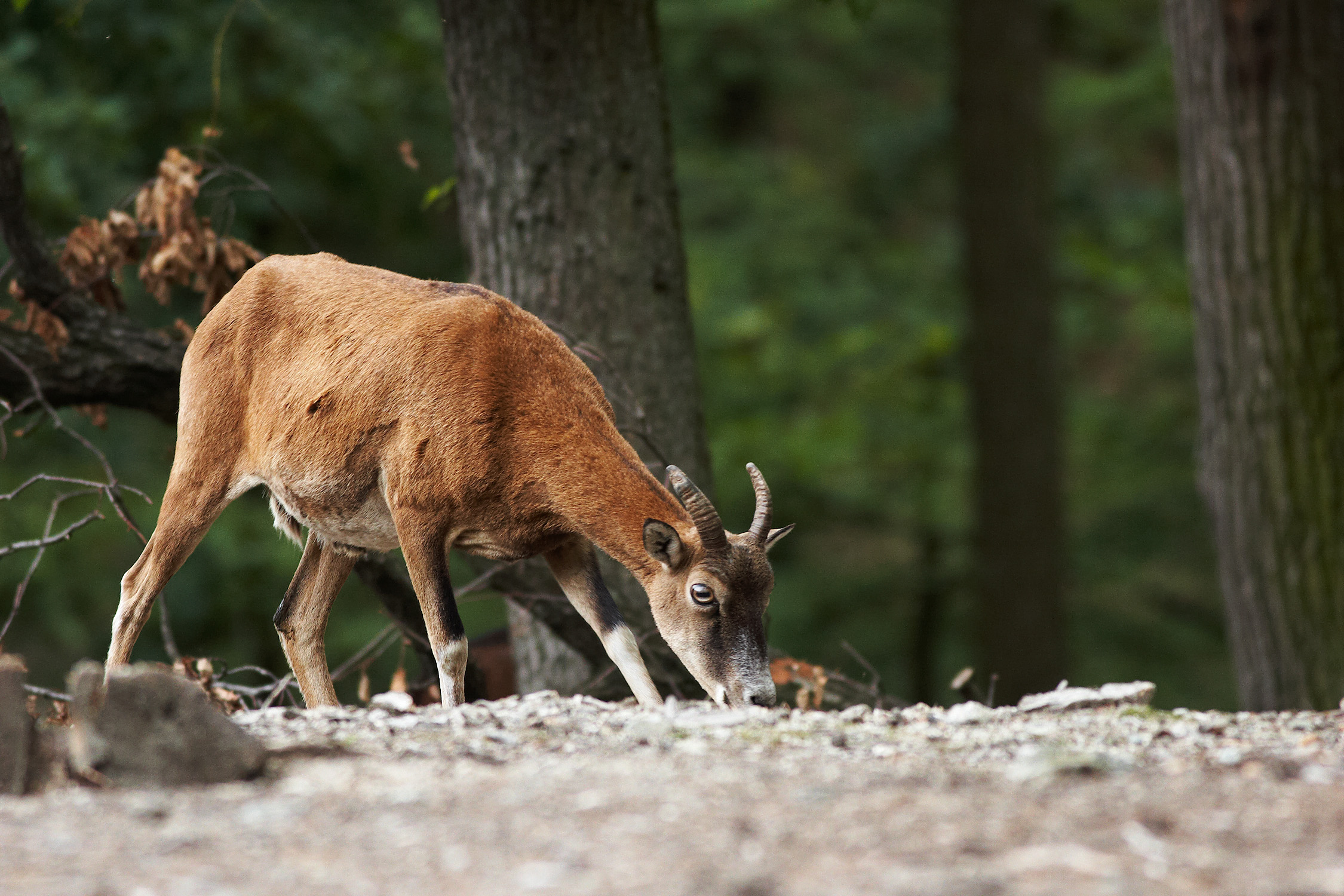 Mouflon (Ovis musimon (Pallas, 1762))